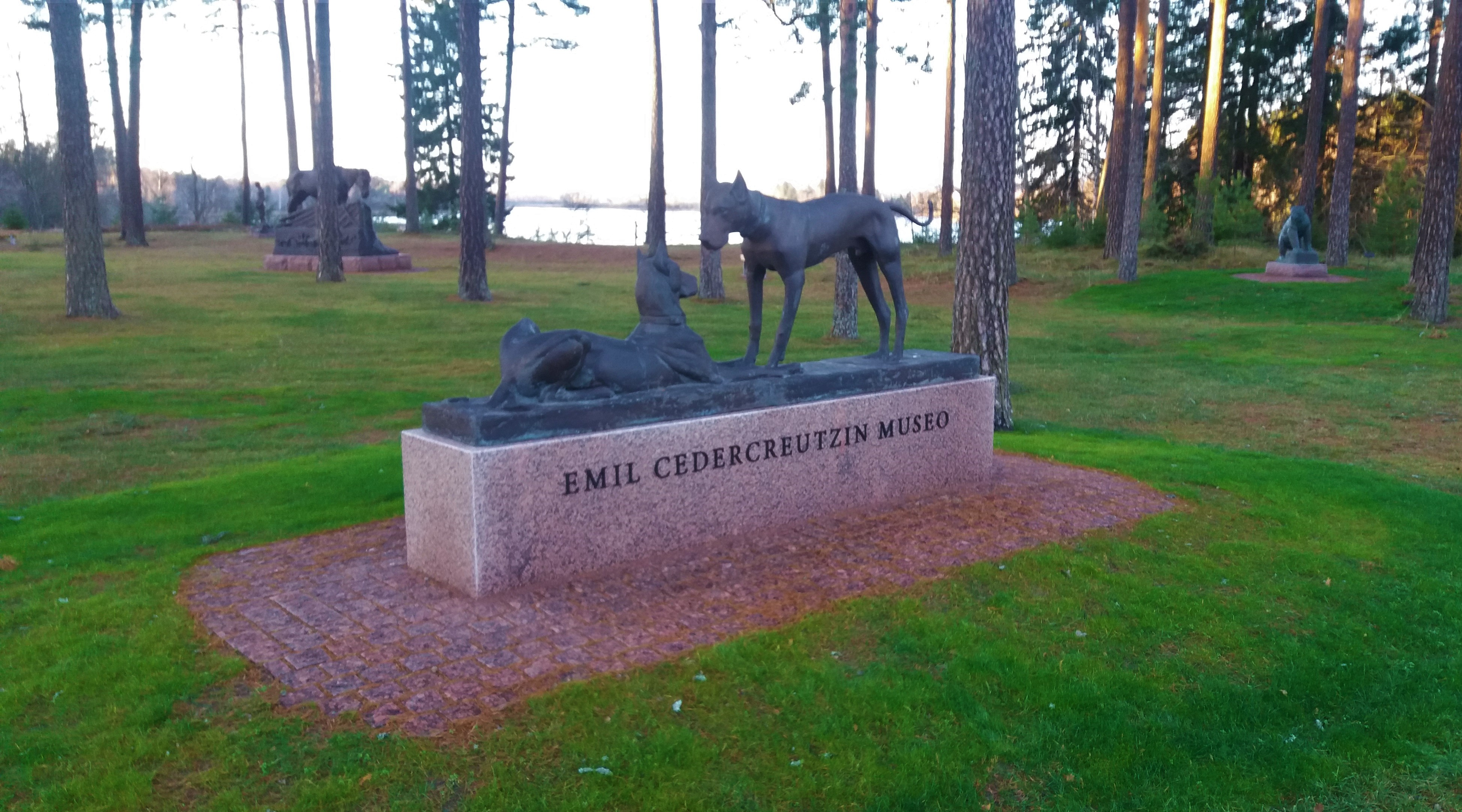 Emil Cedercreutz Museum sculpture park, Harjavalta, Finland. "Verikoiria" (Blood Hounds) by Emil Cedercreutz (1879-1949). Original sculpture 1937, cast in bronze 2017.